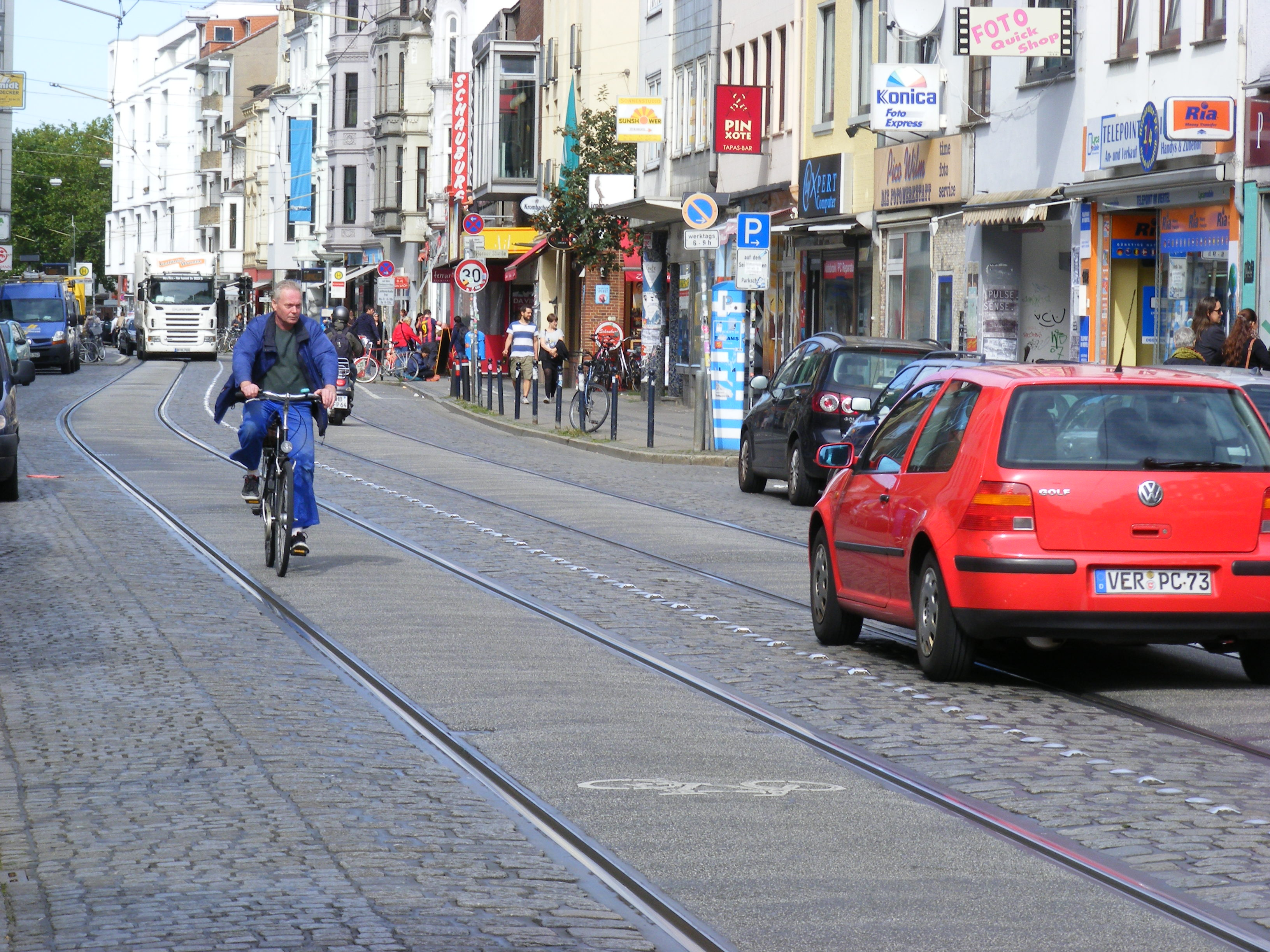 Bremen (Germany), Vor dem Steintor: Integrative cycling anhancement fitting the principles of US and Canadian shared lanes